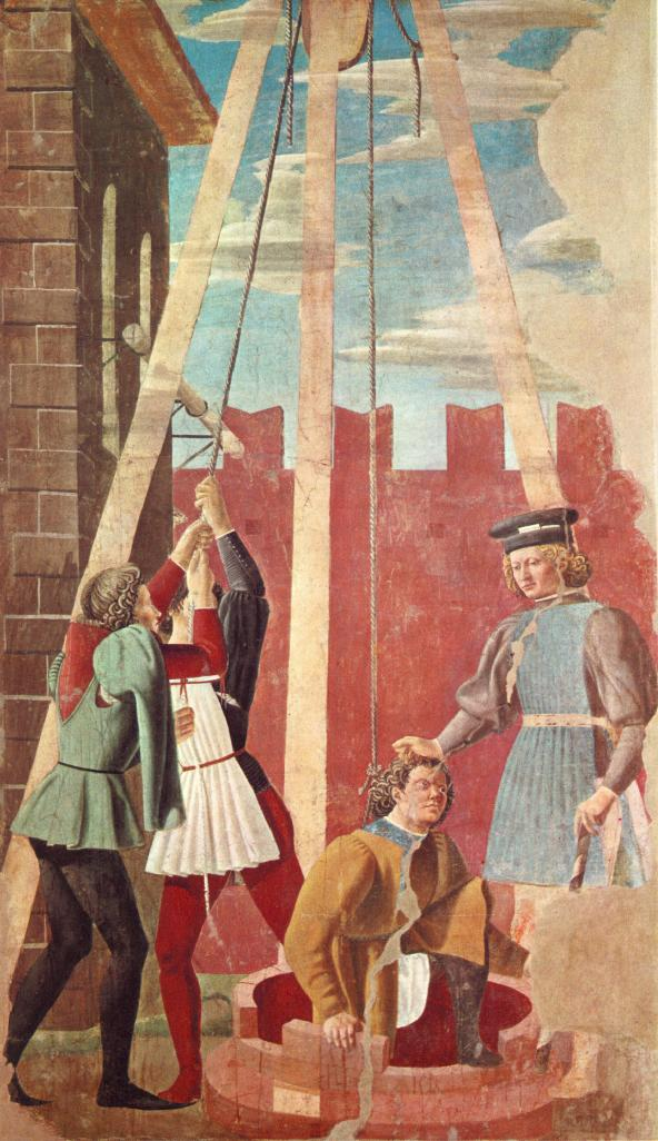 PIERO della FRANCESCA Torture of the Jew Fresco, 356 x 193 cm San Francesco, Arezzo